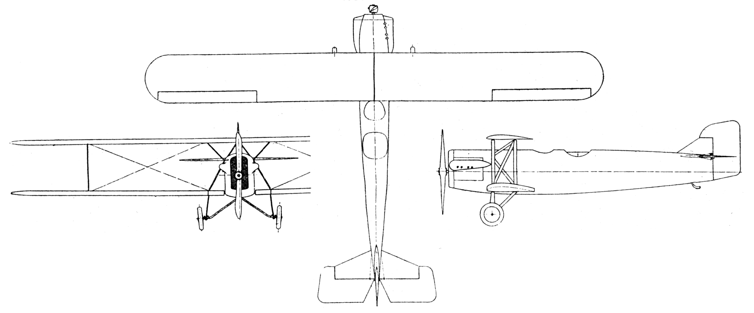 Letov Š-16 3-view drawing from L'Aéronautique January,1927